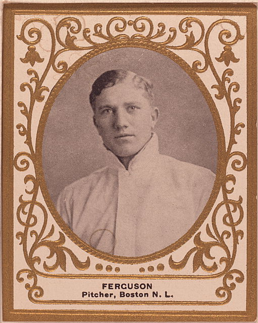 George Ferguson (1883 - 1943), baseball player